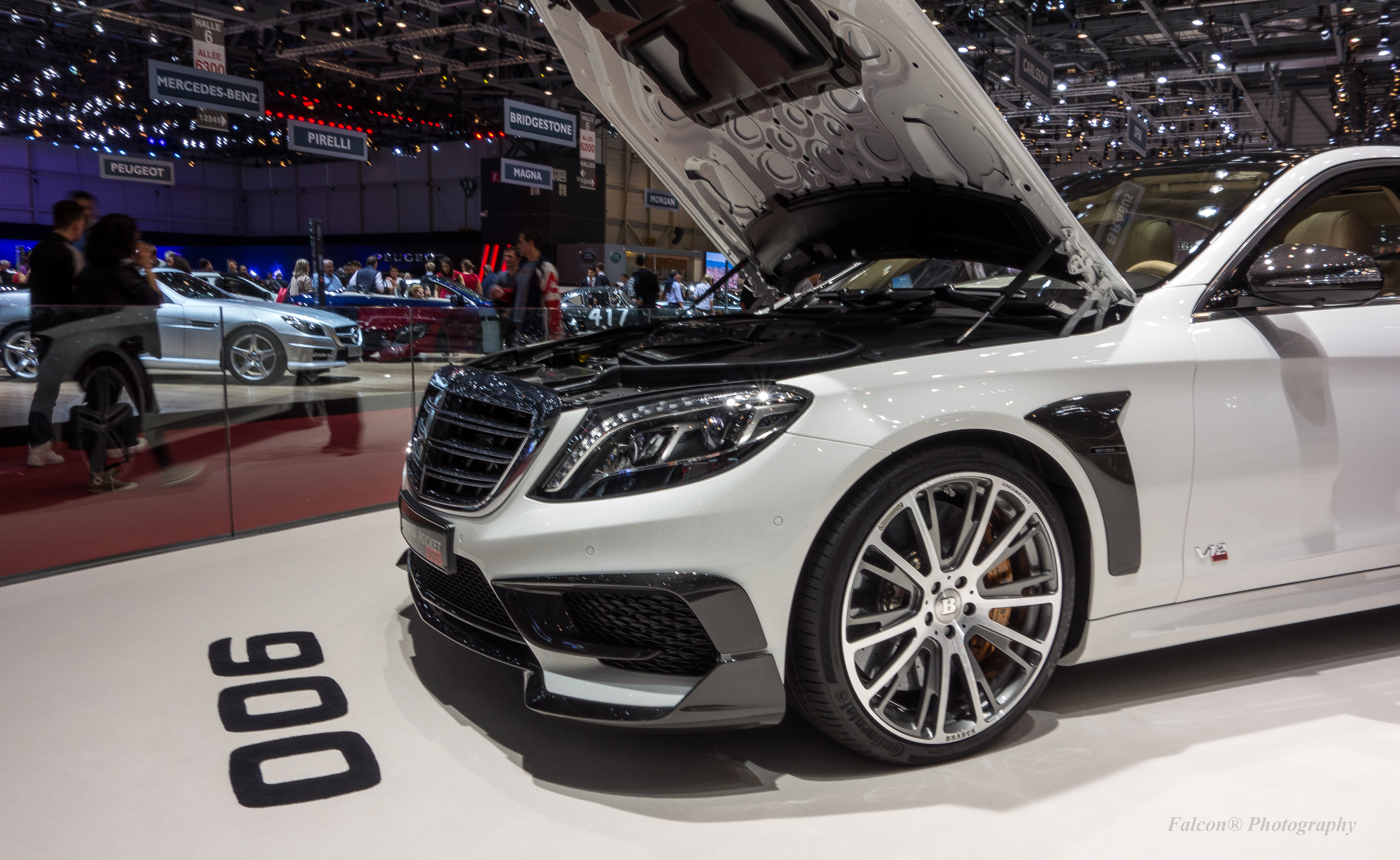 Brabus Rocket 900, 2015, 350km/h, 0-100 in 3.7 sec (Mercedes S-class, V12 6.3 630 hp stock)